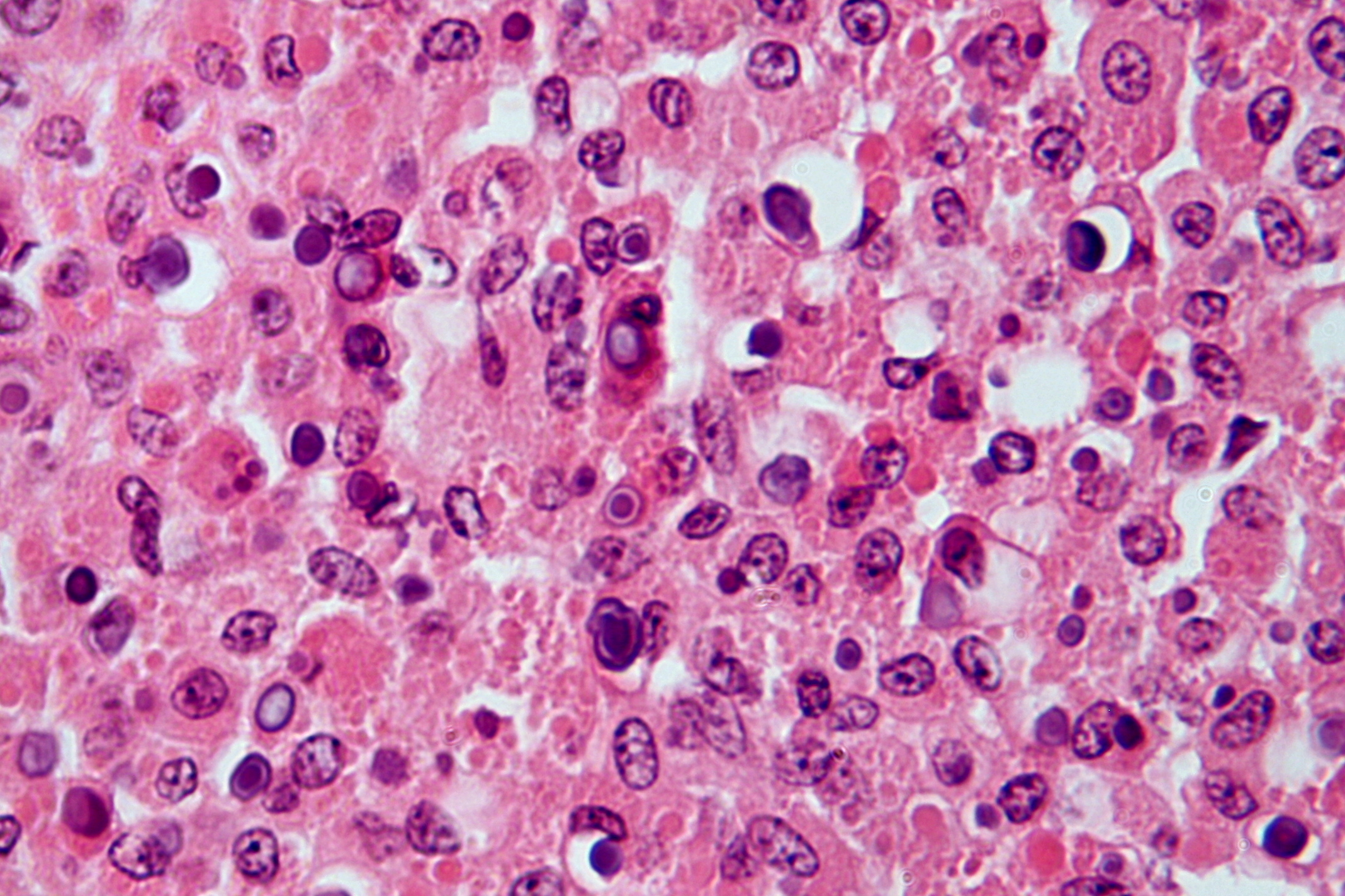 Very high magnification micrograph showing Michaelis-Gutmann bodies, the characteristic finding of malakoplakia. H&E stain. Related images